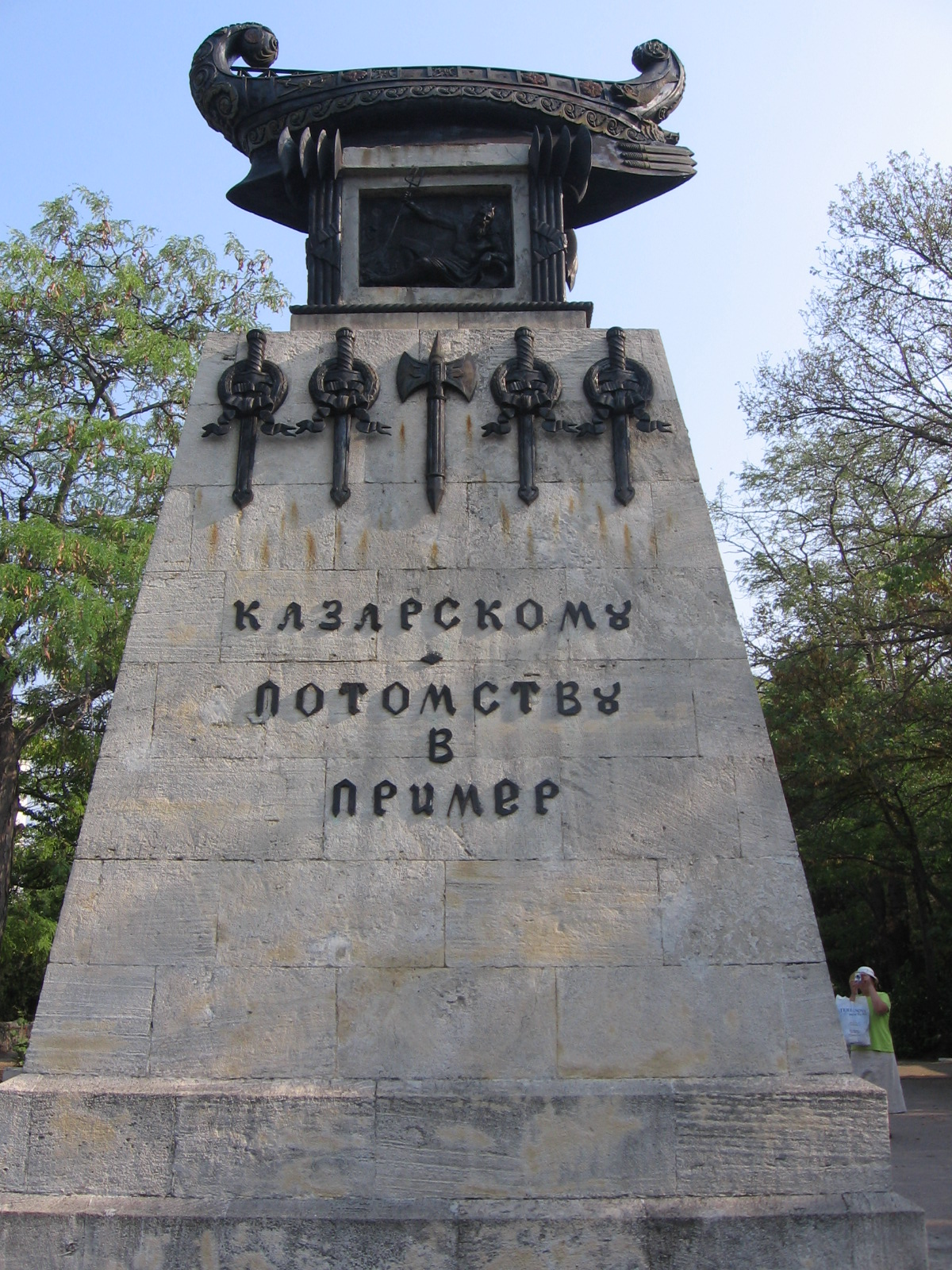 Monument to Alexander Kazarsky, built in 1839 on a project by architect A.P.Bryullov. This is the first monument of Sevastopol. It commemorates the crew and captain of brig Mercury and this ship's victory.